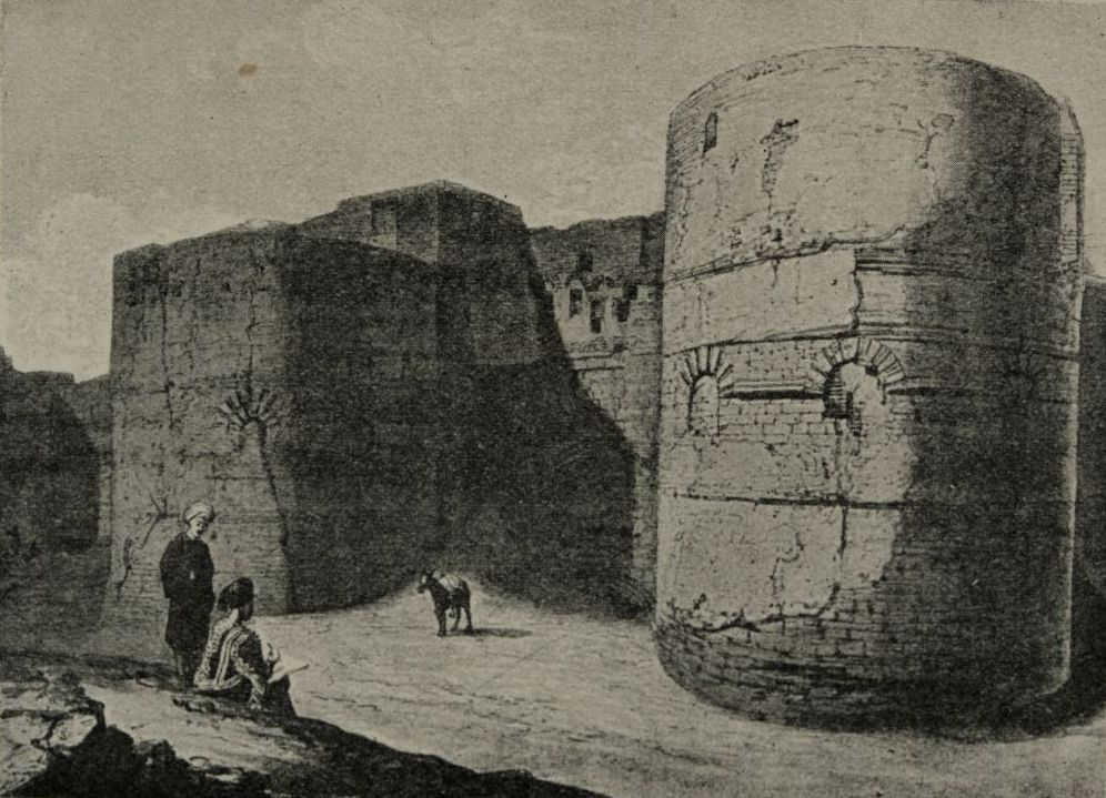 Two men gazing at the tower, ; one is sketching. Gate of Kasr-esh-Shema at Babylon Fortress (Cairo); Line Drawing.